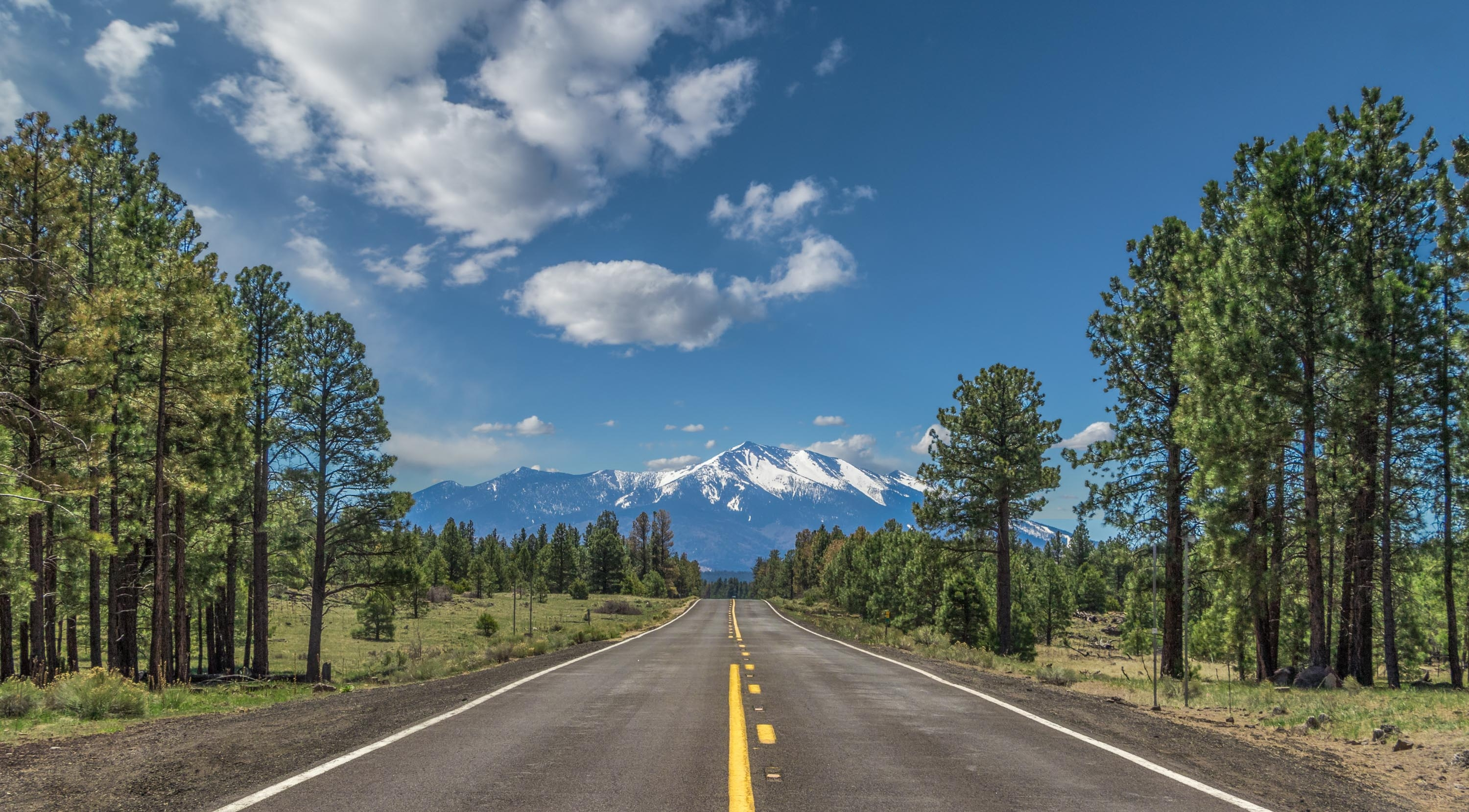 pine-lined highway leading to snowcapped mountains, centred